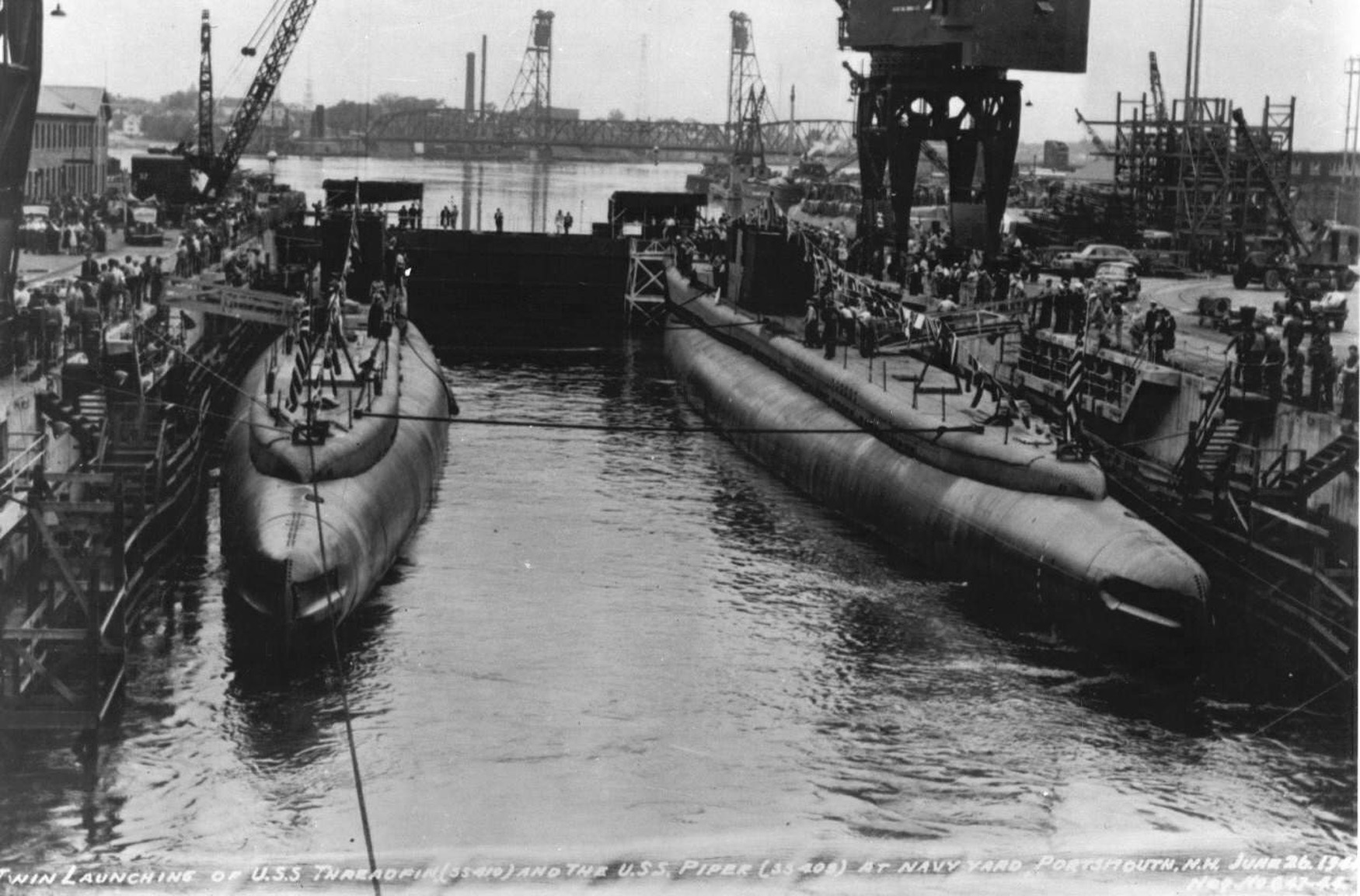 USS Piper (SS-409) & USS Threadfin (SS-410) double launching at Portsmouth Navy Yard, Kittery, ME; 26 June 1944.